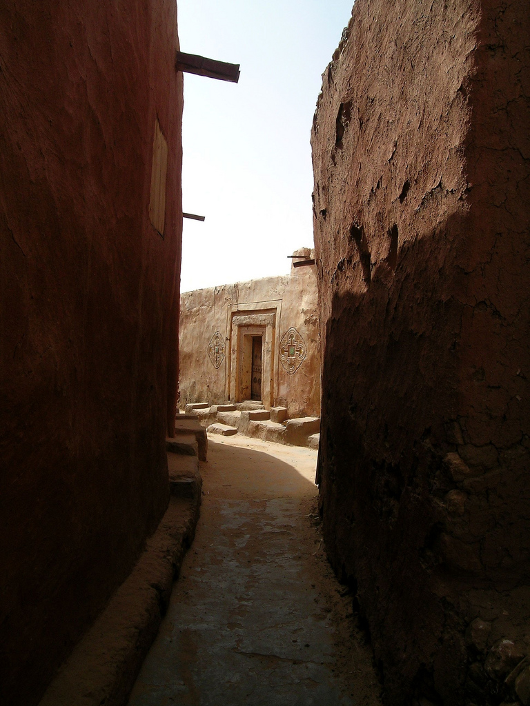 A typical street in Oualata, Mauritania